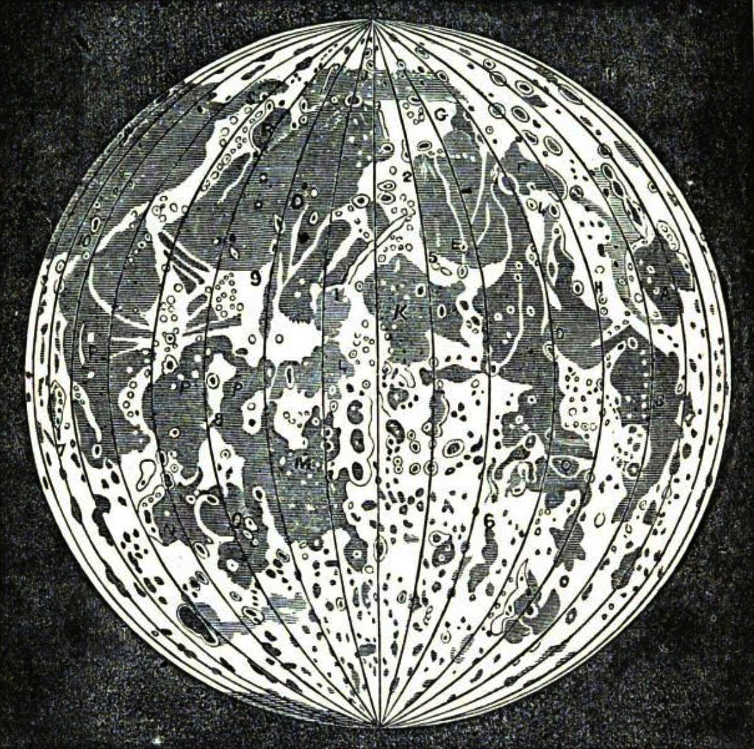 The moon, as seen by lord Rosse's telescope, 1856